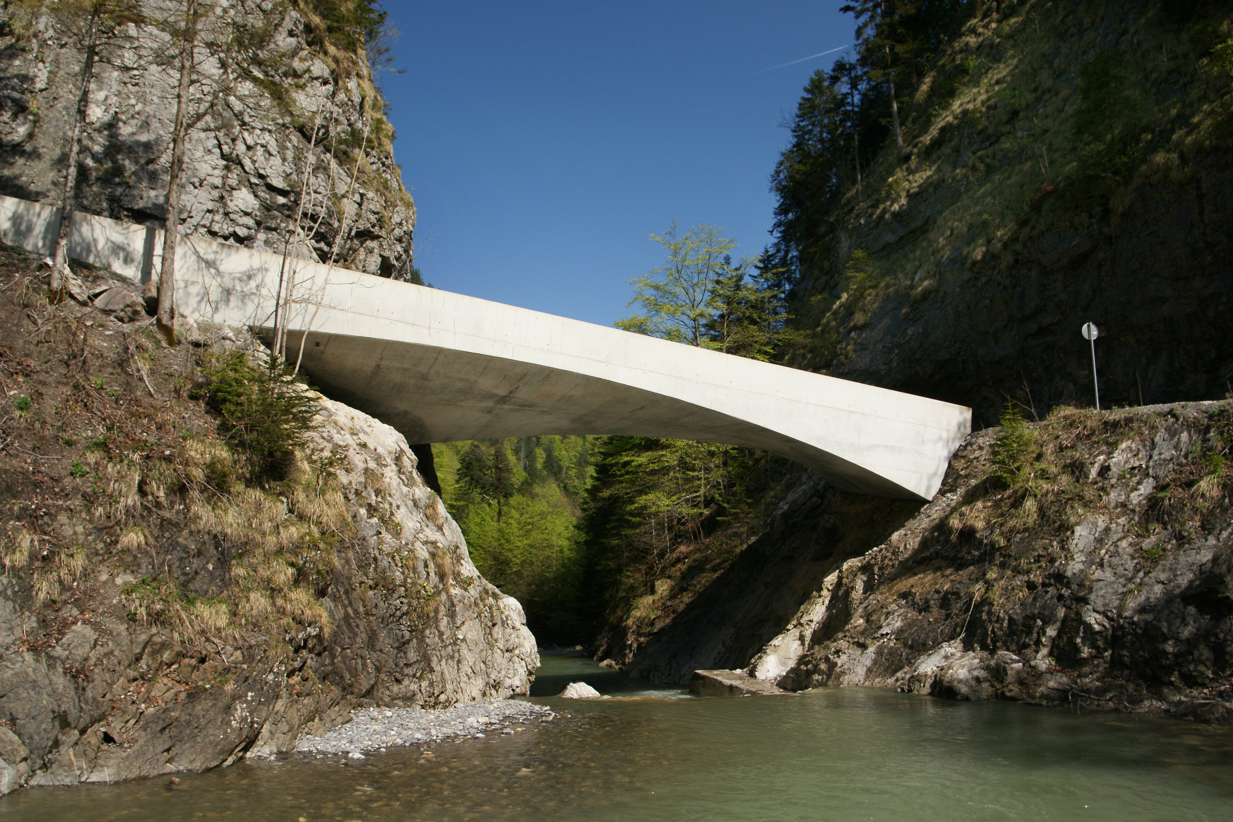 The road from Dornbirn to the mountain village of Ebnit.